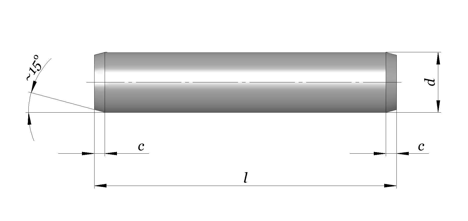 Sideview of a parallel pin (dowel pin) according to DIN EN ISO 8734:1997.